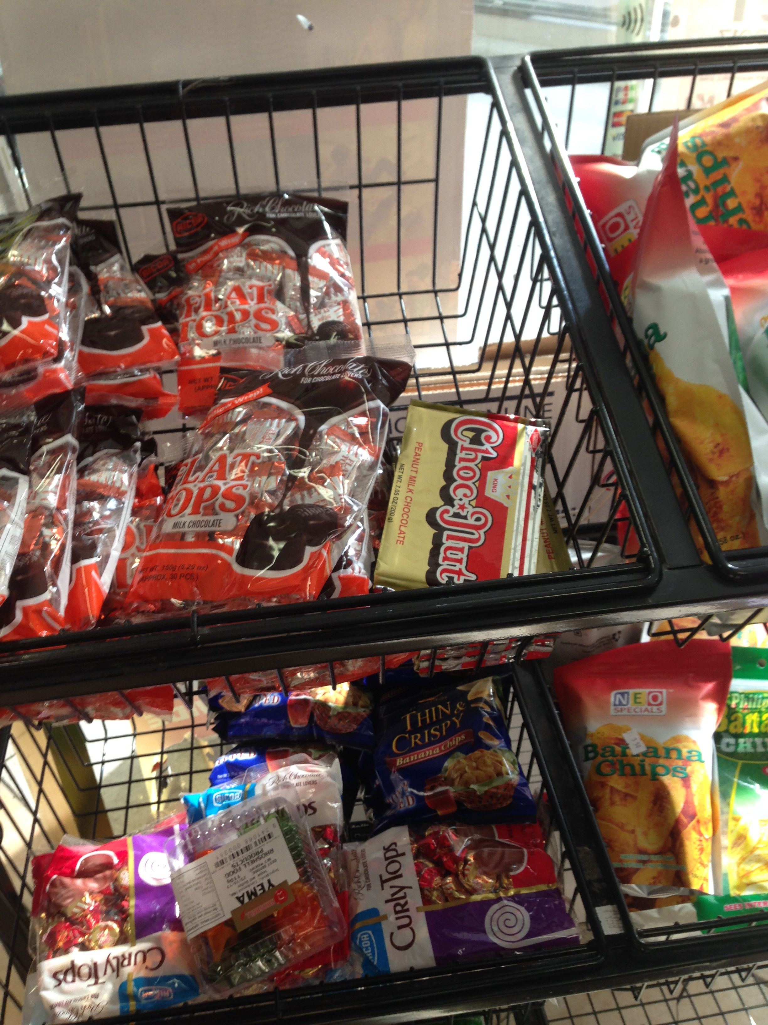 Packets of Choc Nut for sale in a 'Filipino Store' in Sydney, Australia.